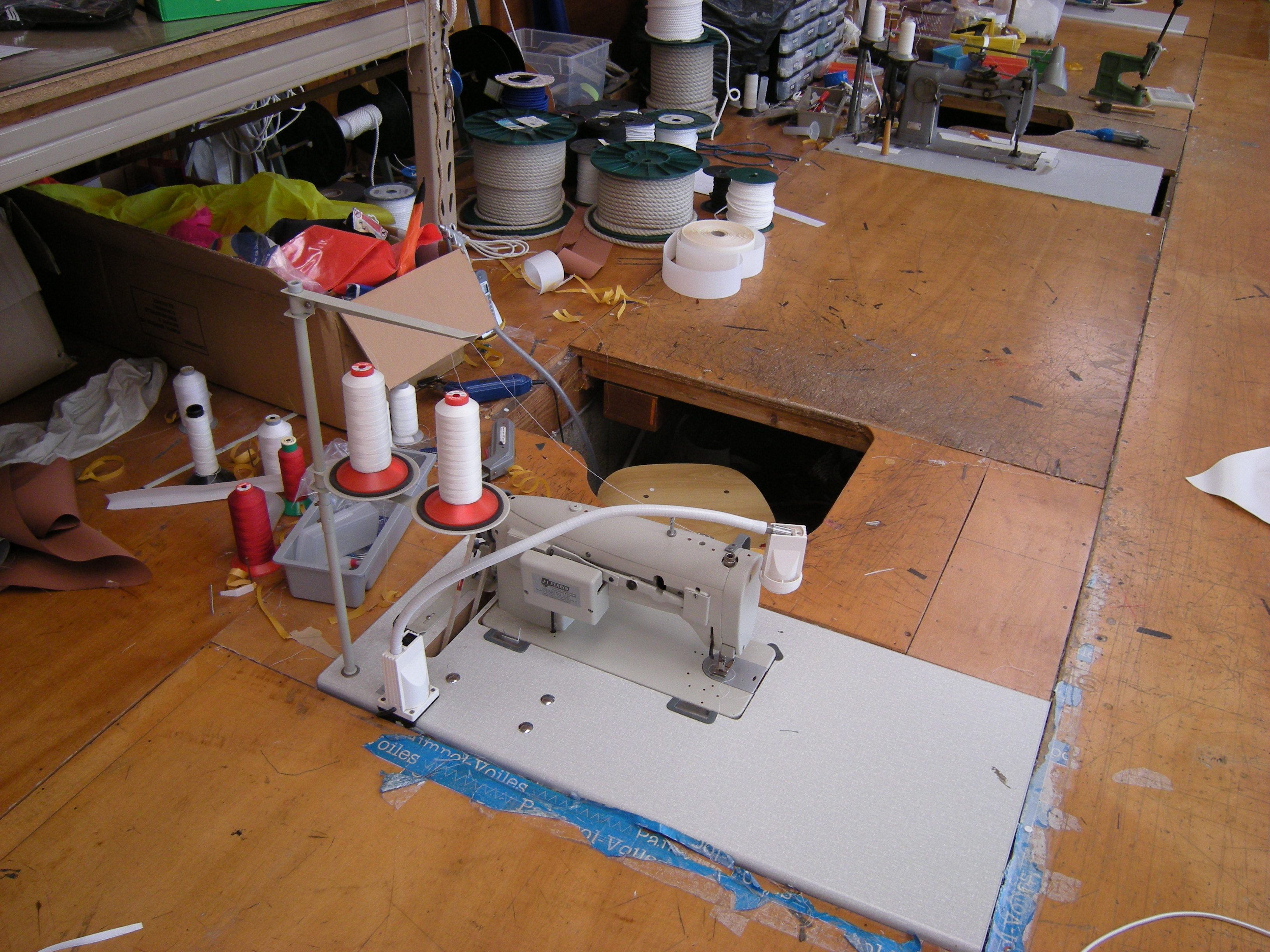 Sailmaker sewing machine station.